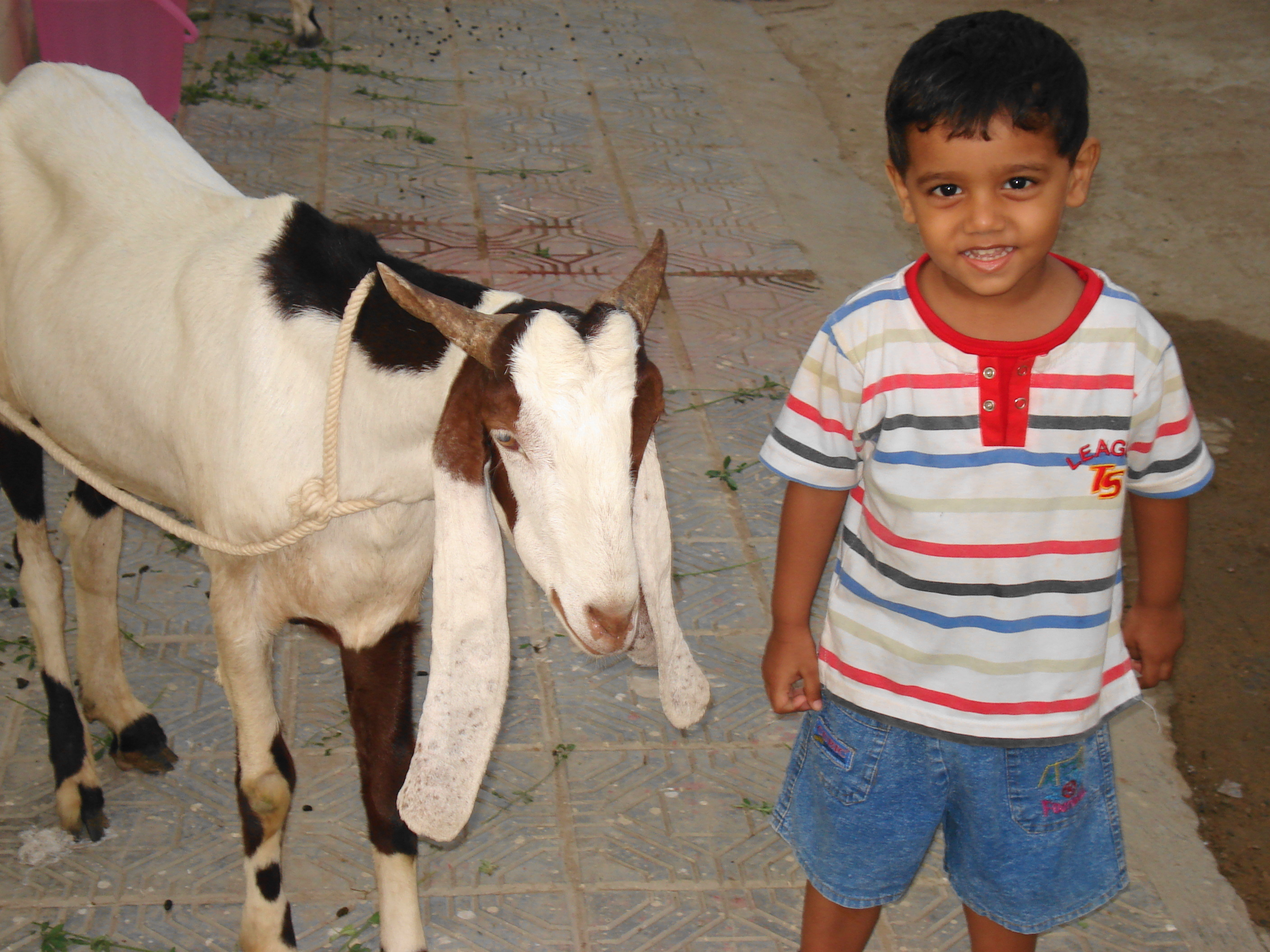 Muslims perform aqiqah on 7th day of child's birth but can perform at any age. for boy 2 goats and for girl only one goat to be slaughtered.